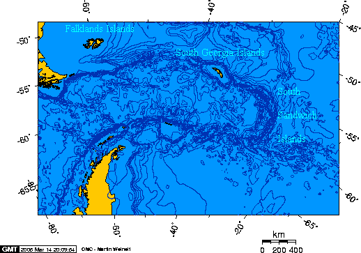 Drake Passage - Falklands - South Georgia - South Sandwich Islands